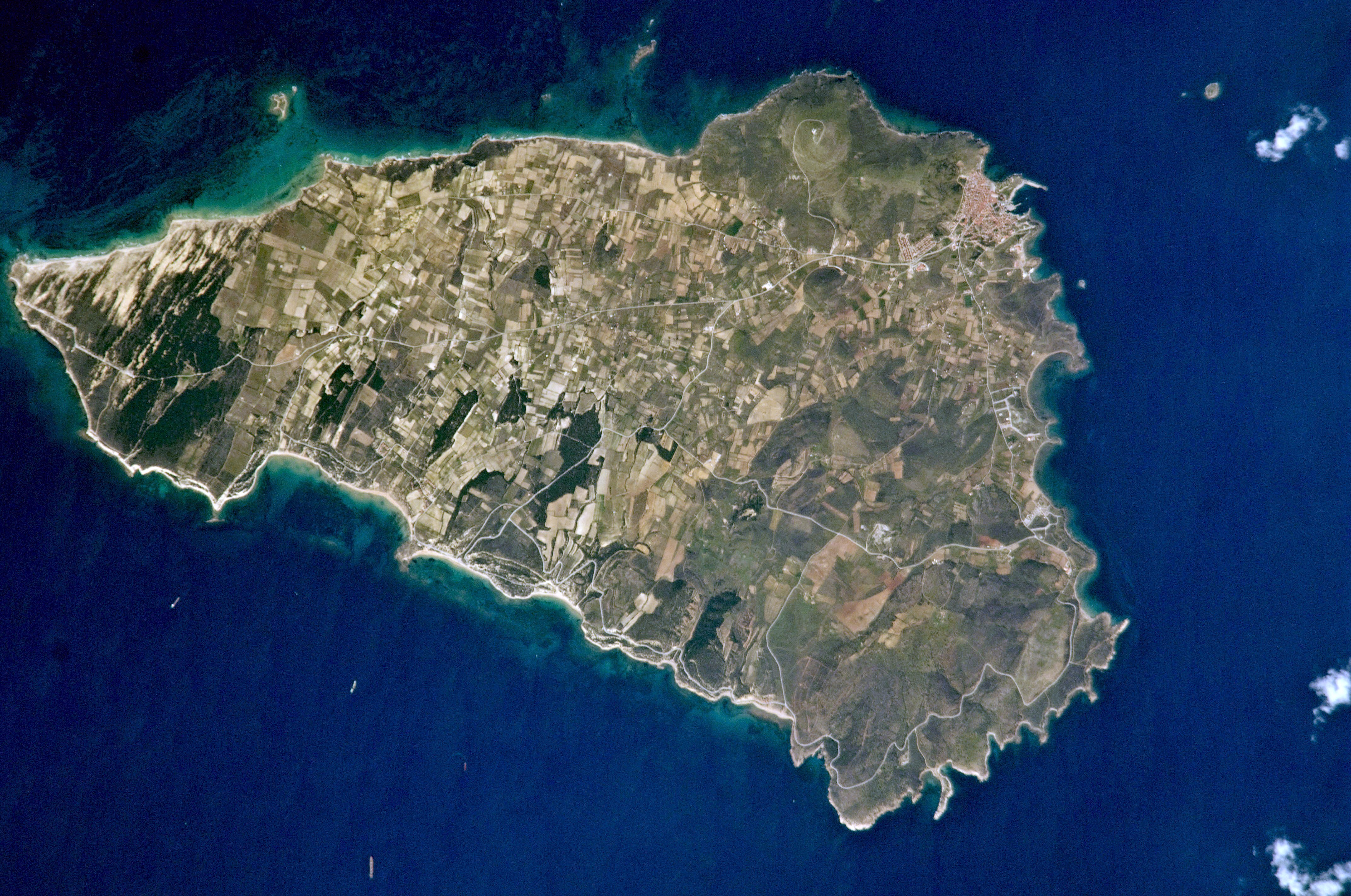 NASA astronaut image of Bozcaada Island (Turkey) in Aegean Sea.